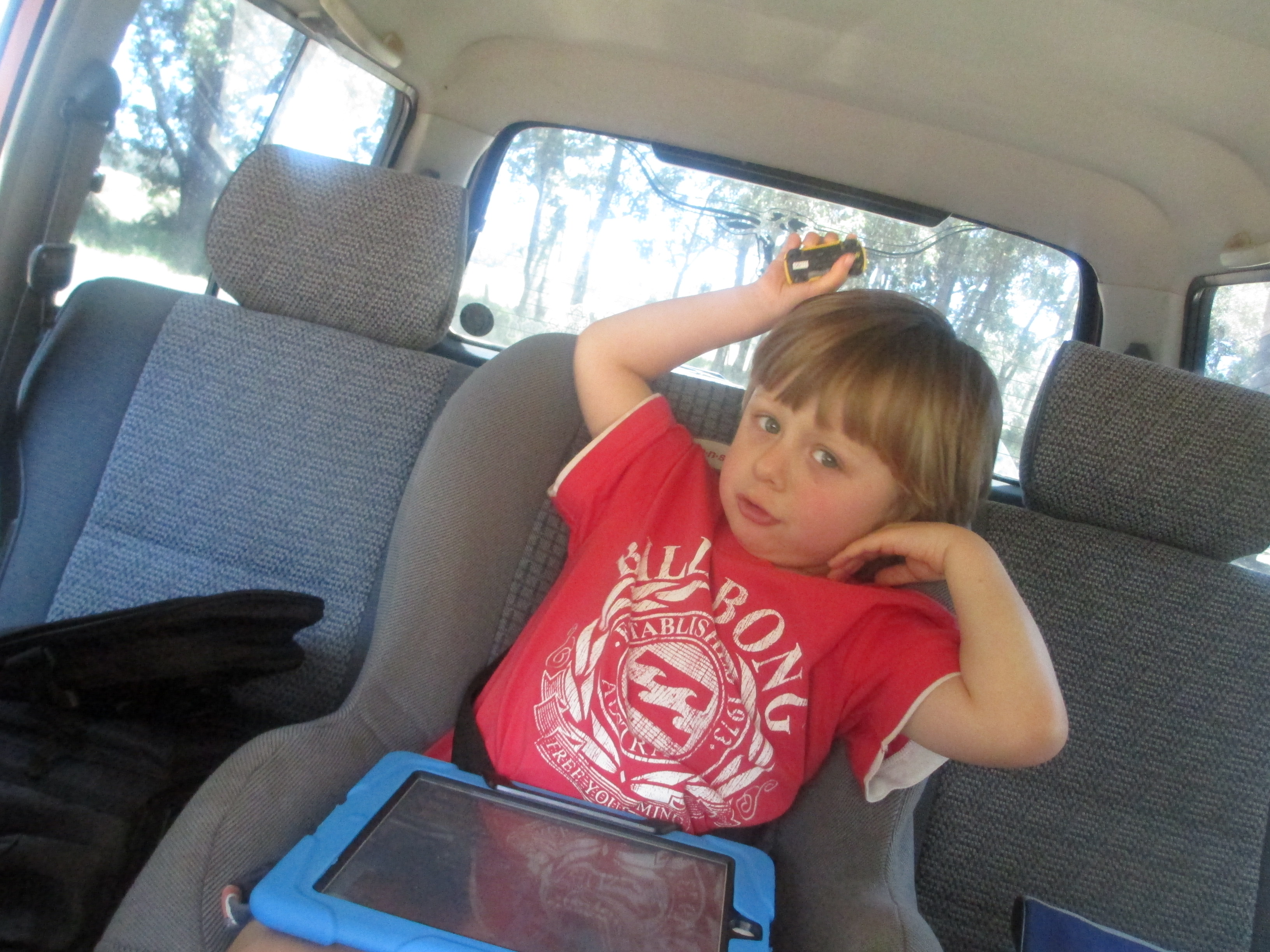 From Wikipedia Takes Waroona Child restrained in a car seat